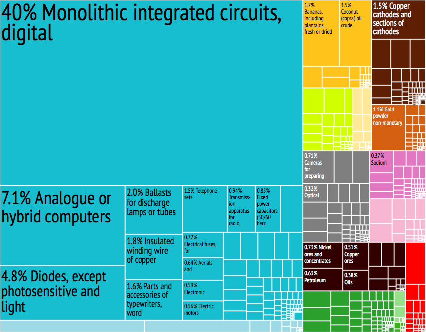 A proportional representation of the Philippine's exports.